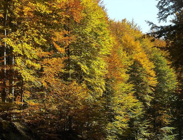 Photo taken on the national road between Kastoria and Florina, via Vitsi Mountain and near the village of Polypotamo in Florina Prefecture.